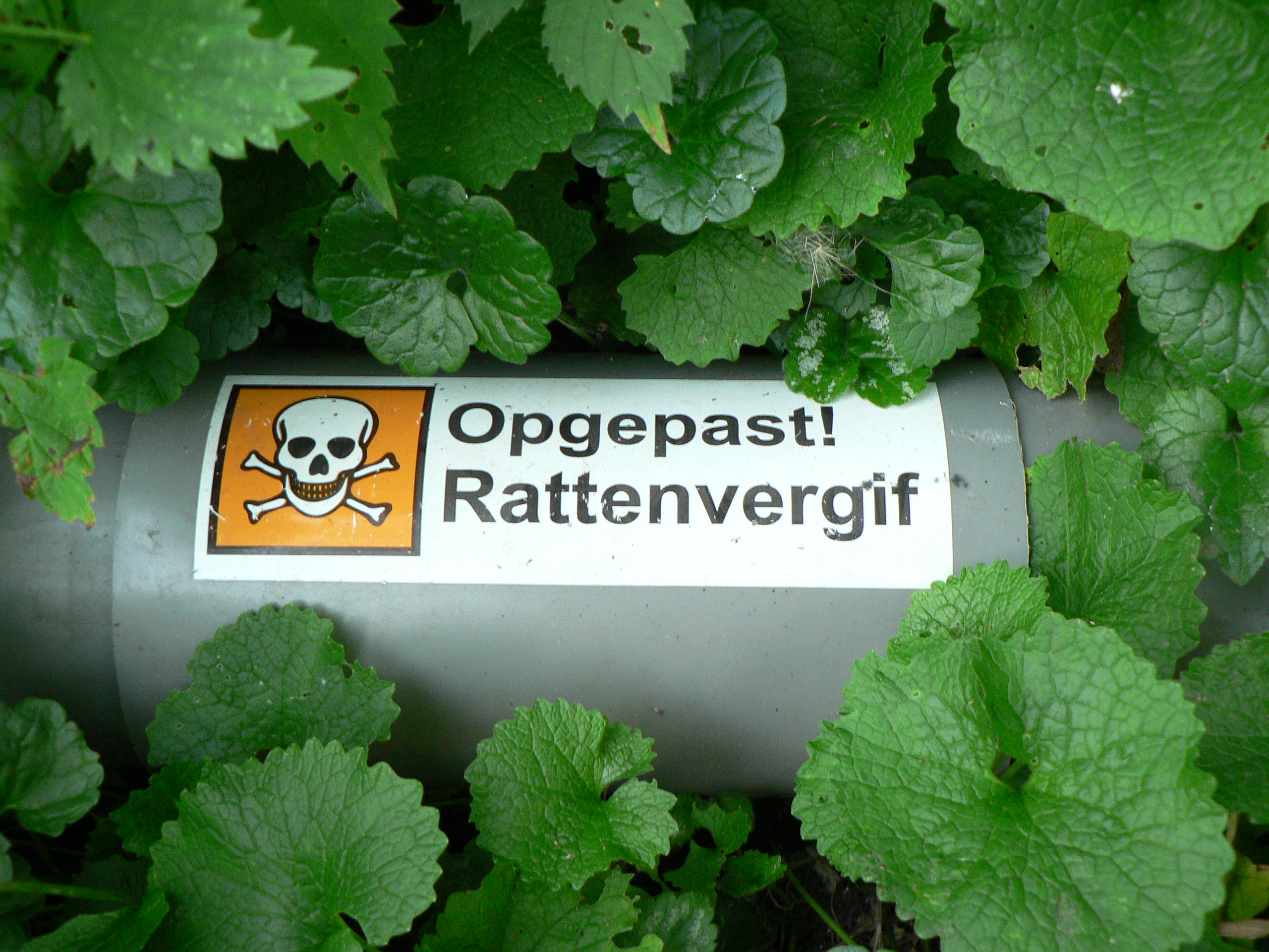 PVC tube with rat poison warning